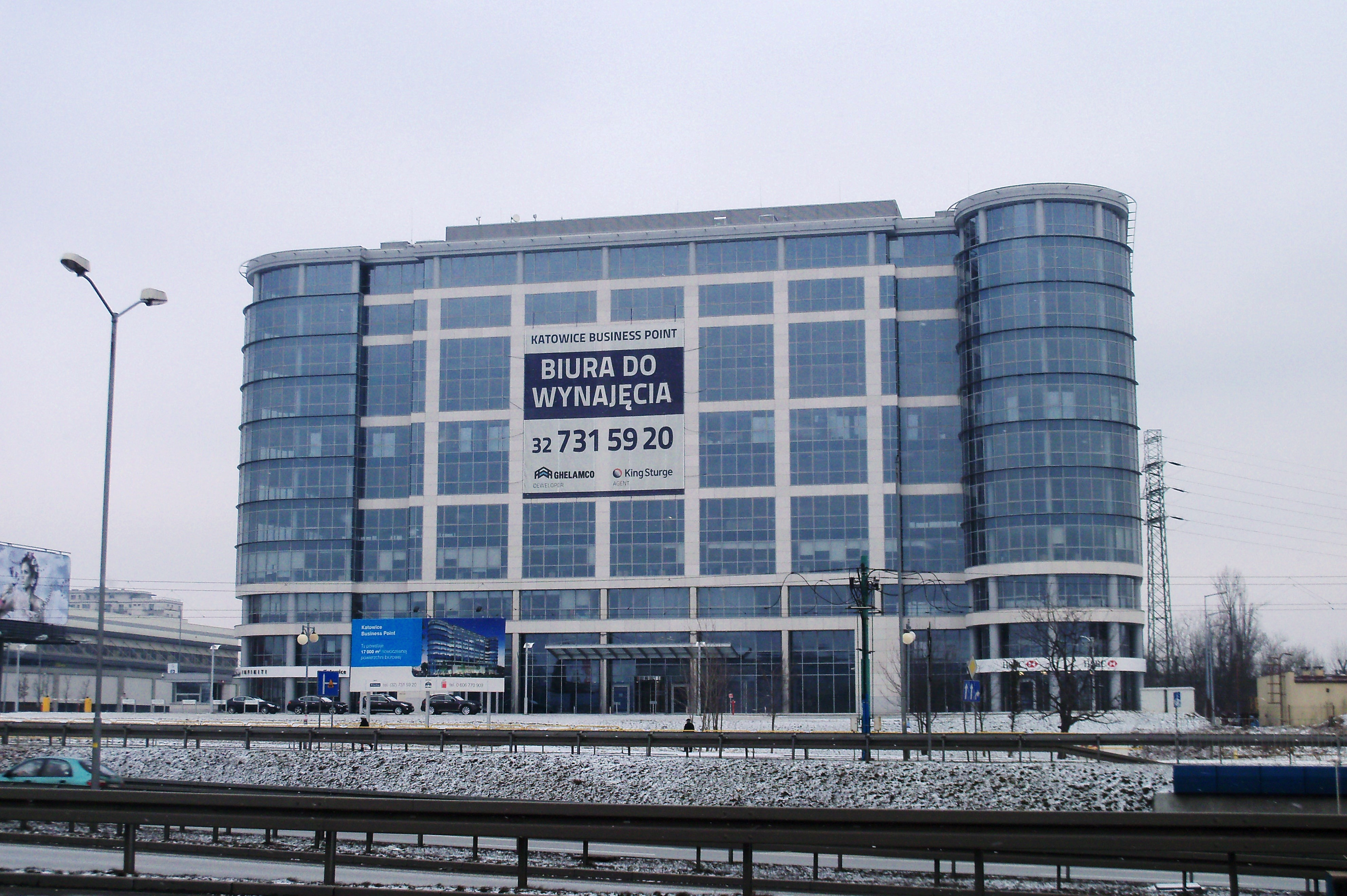 Katowice Business Point